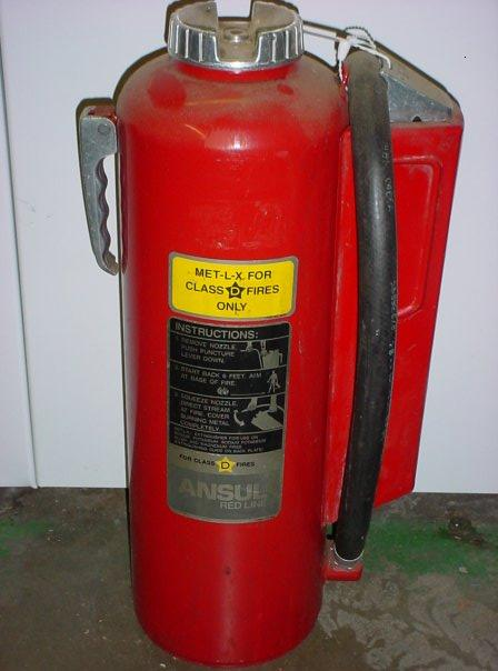 30lb. Met-L-X Dry powder for metal fires